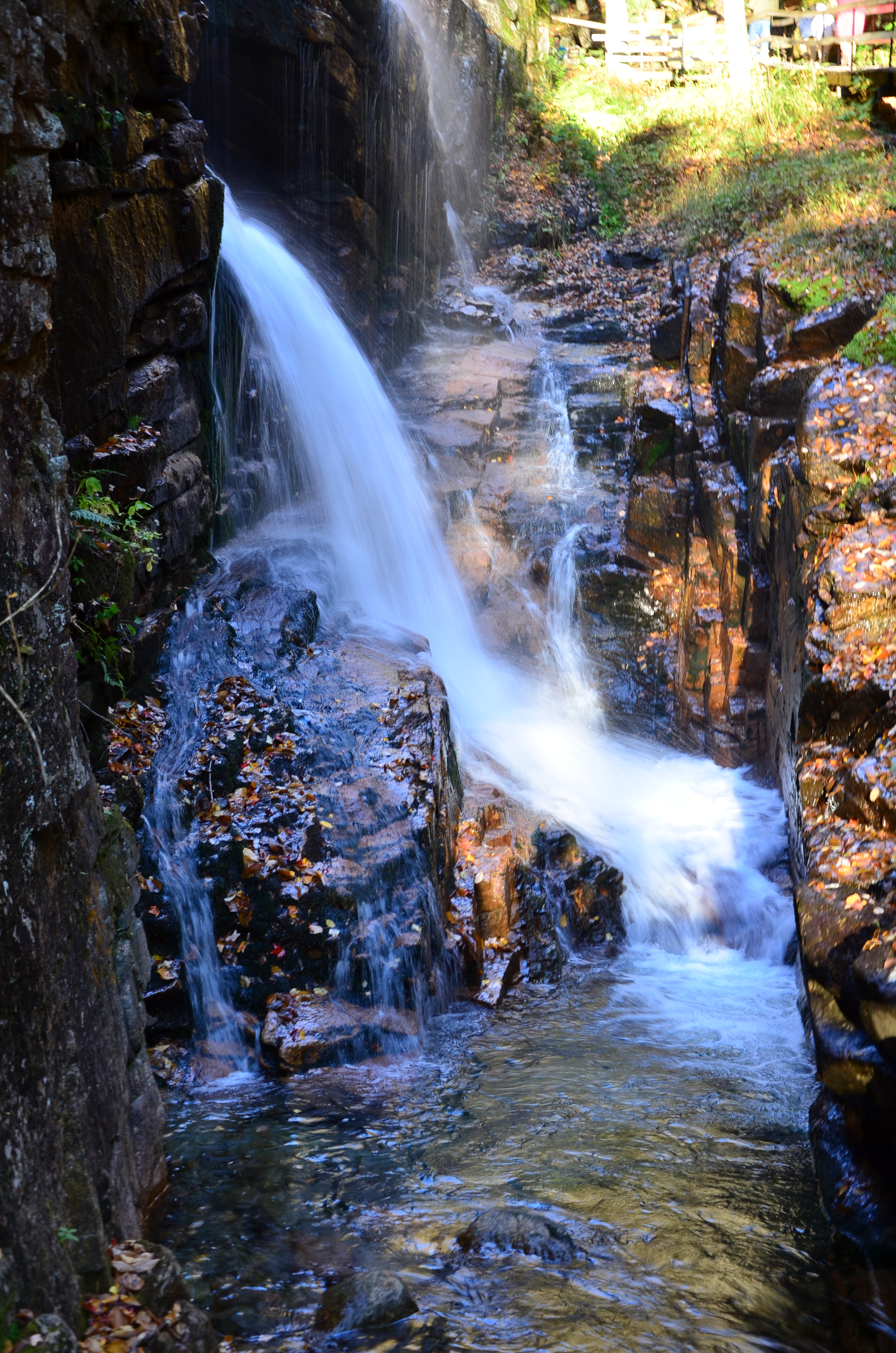 View of waterfall in Flume Gorge